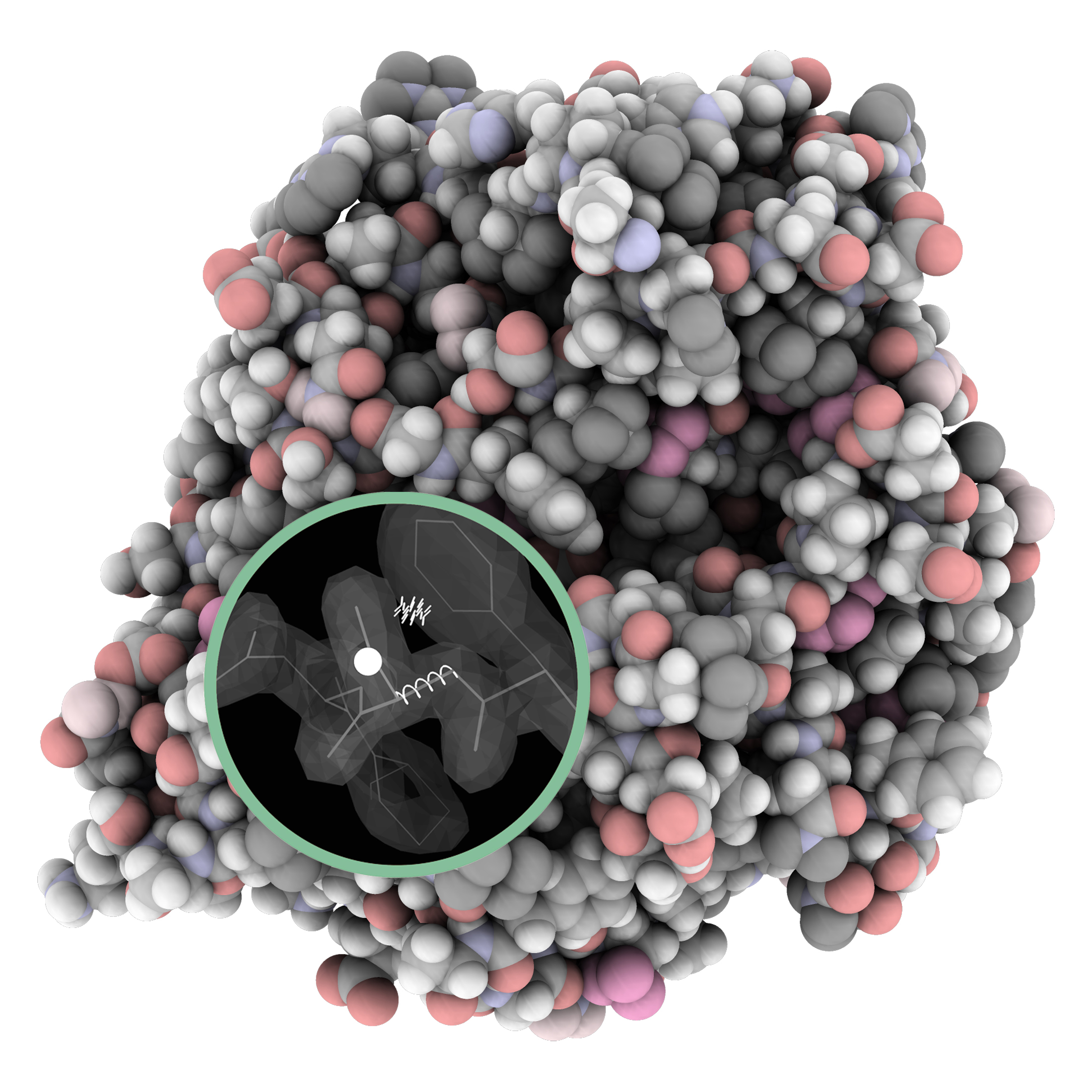 Macromolecular structure validation: the concept is to assess the internal details of how the atomic model matches its experimental data and matches physical and empirical knowledge about proteins and nucleic acids. This is symbolized by the magnified region with the coordinate model, the electron density map, and three highlighted flags for problems.